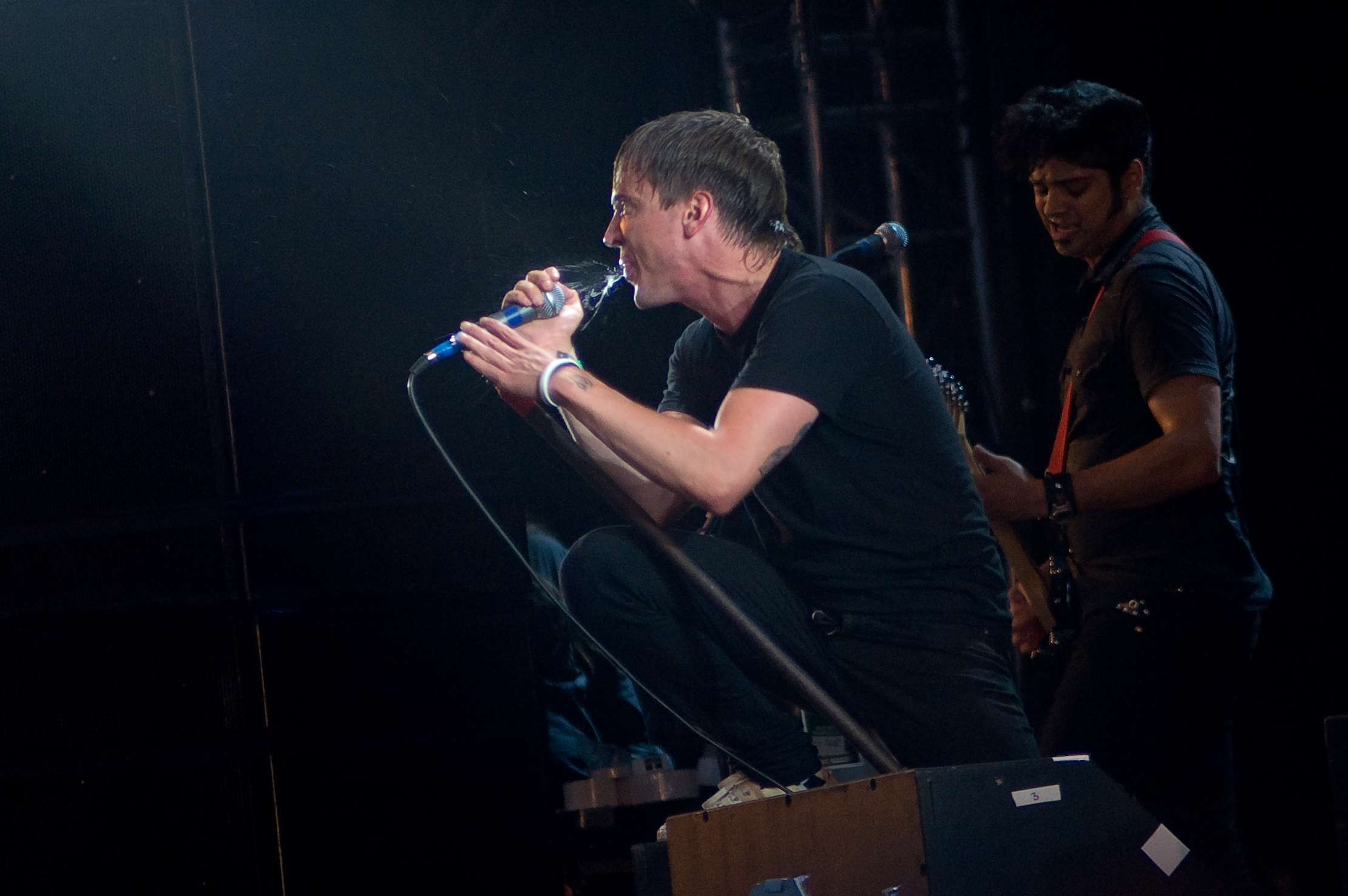 Billy Talent at Ruisrock 2007Billy Talent @ Ruisrock 2007